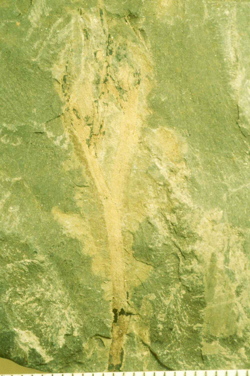 Fossil plant cupule of Stamnostoma huttonense from the Early Carboniferous Cementstone Group at Newton near Foulden, Scottish Borders